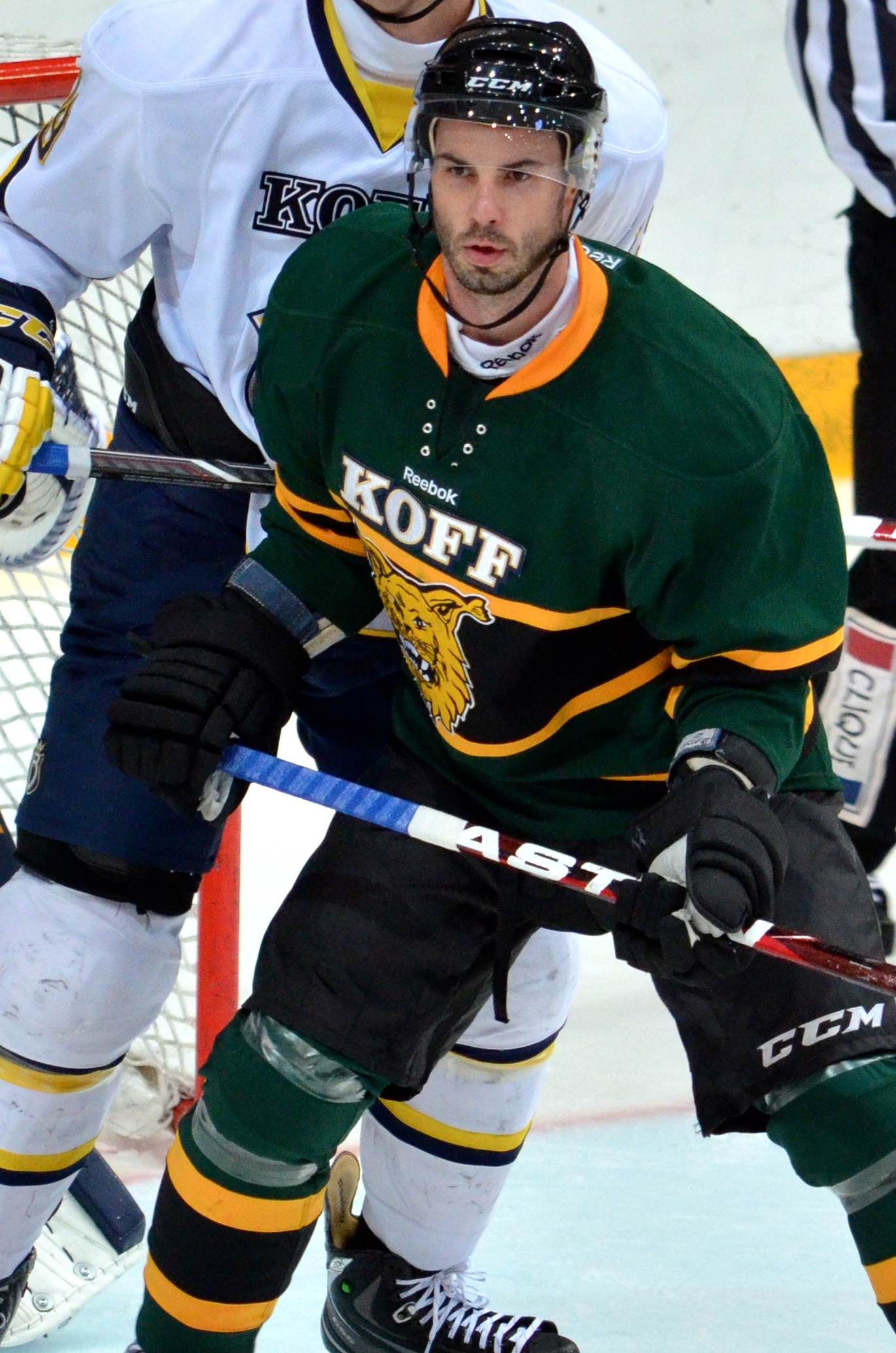 Canadian ice hockey forward Daniel Corso playing for Tampere Ilves in an SM-liiga preseason game against Espoo Blues in Tampere, Finland.